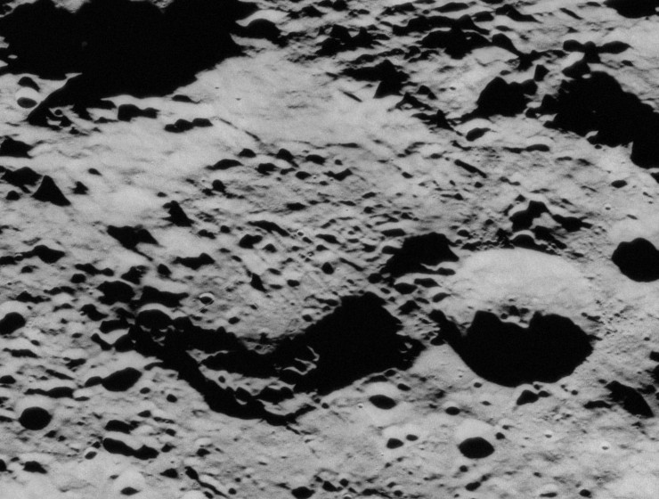 Oblique view of Neujmin crater, on the moon, facing east. From Apollo 17 mapping camera during trans-Earth injection.